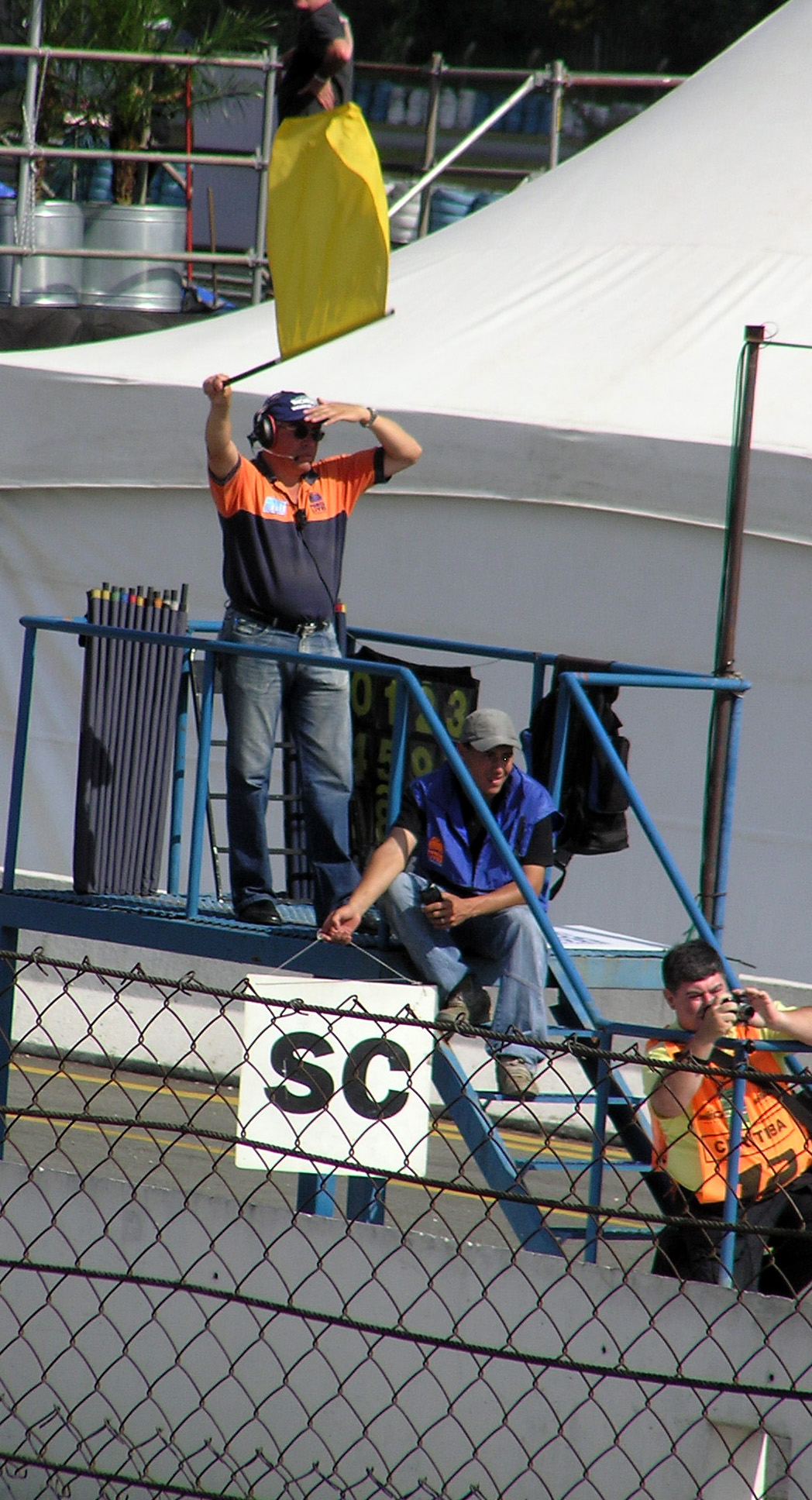 Stock Car Brasil Safety Car sign: Stock car V8 - Round 2 Curitiba